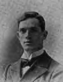 Portrait of New York state senator Frank Gallagher, of Brooklyn